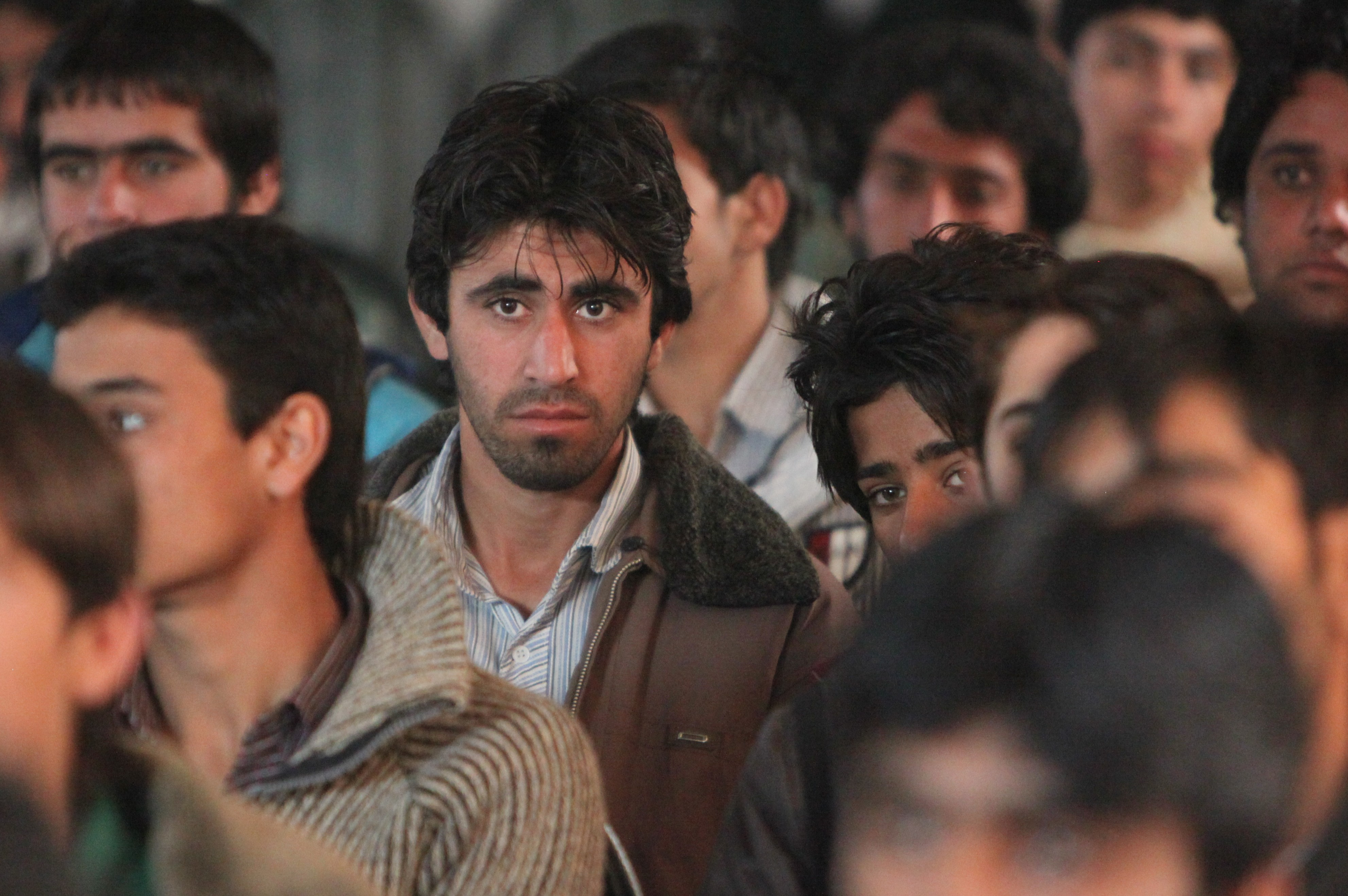 Nearly 300 young men and women between the ages of 14 and 30 gathered at the provincial governor’s compound in Zaranj to be part of a youth shura, Jan. 18. This shura was a chance to interact with the local men and women and describe to them how the future of Afghanistan rests in their hands. (Photo ID: 359495)